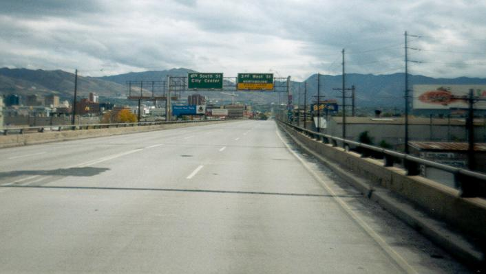 Looking east on the old 600 South viaduct (SR-269) leading into Downtown Salt Lake City. The left sign says6th South StCity Centerwhile the right sign reads3rd West StNORTHBOUNDRight laneExit OnlyThis was the old, pre-1980s way that UDOT formatted street names on BGSs